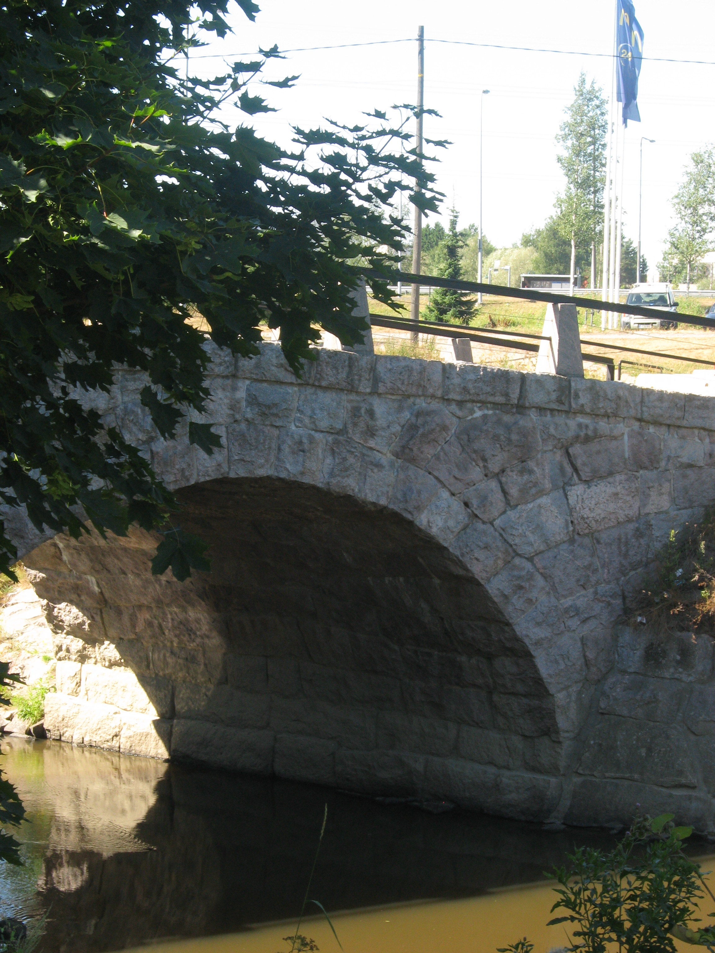 Brobacka double arch stone bridde, over River Kerava, between Siltamäki, Helsinki and Tammisto, Vantaa, Finland. Completed (mosti likely) in 1890. The bride is also called Kerava River bridge, Kirkonkylä bridge and Siltamäki bridge.